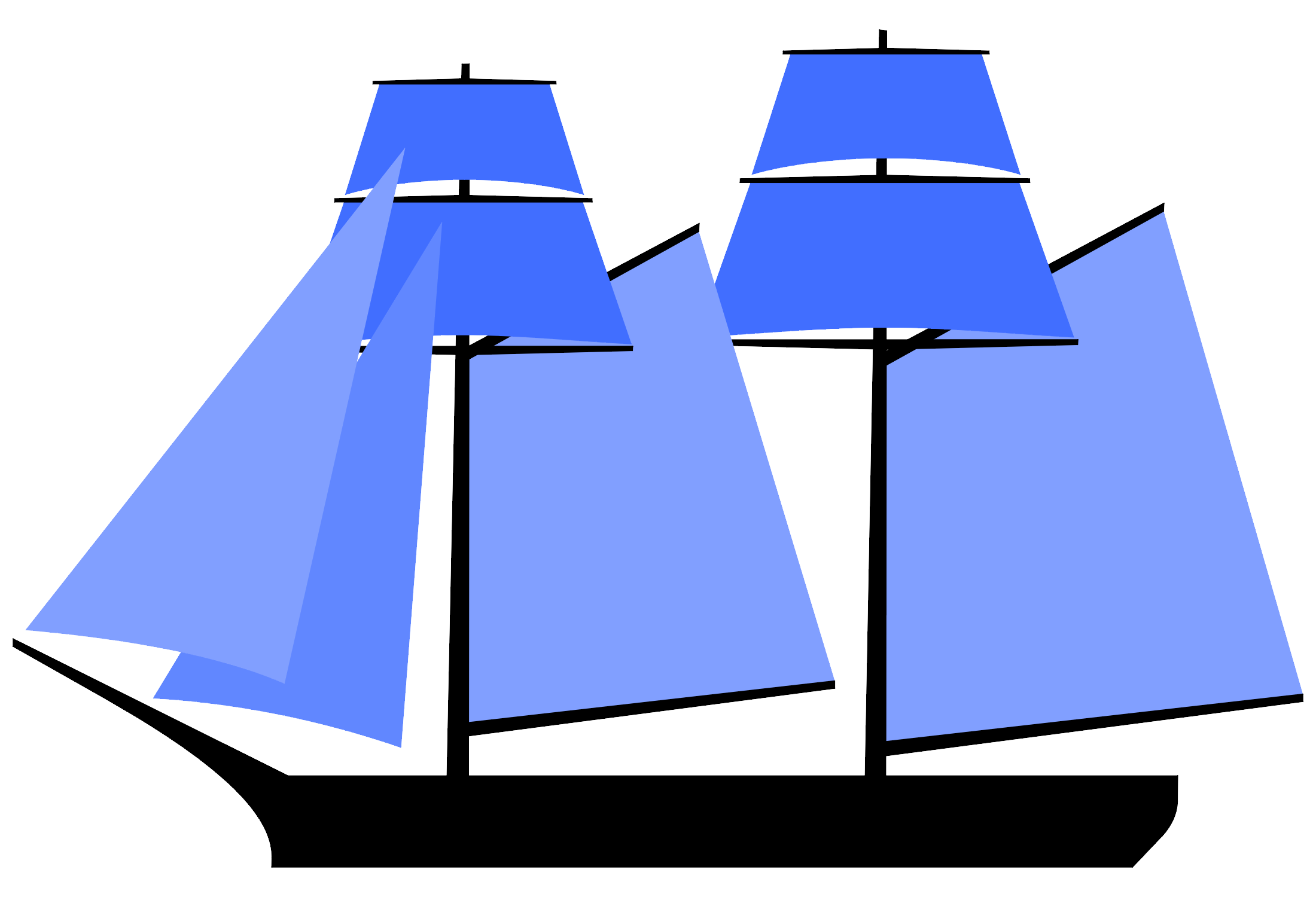 A double topsail schooner or jackass brig. (derivative work on